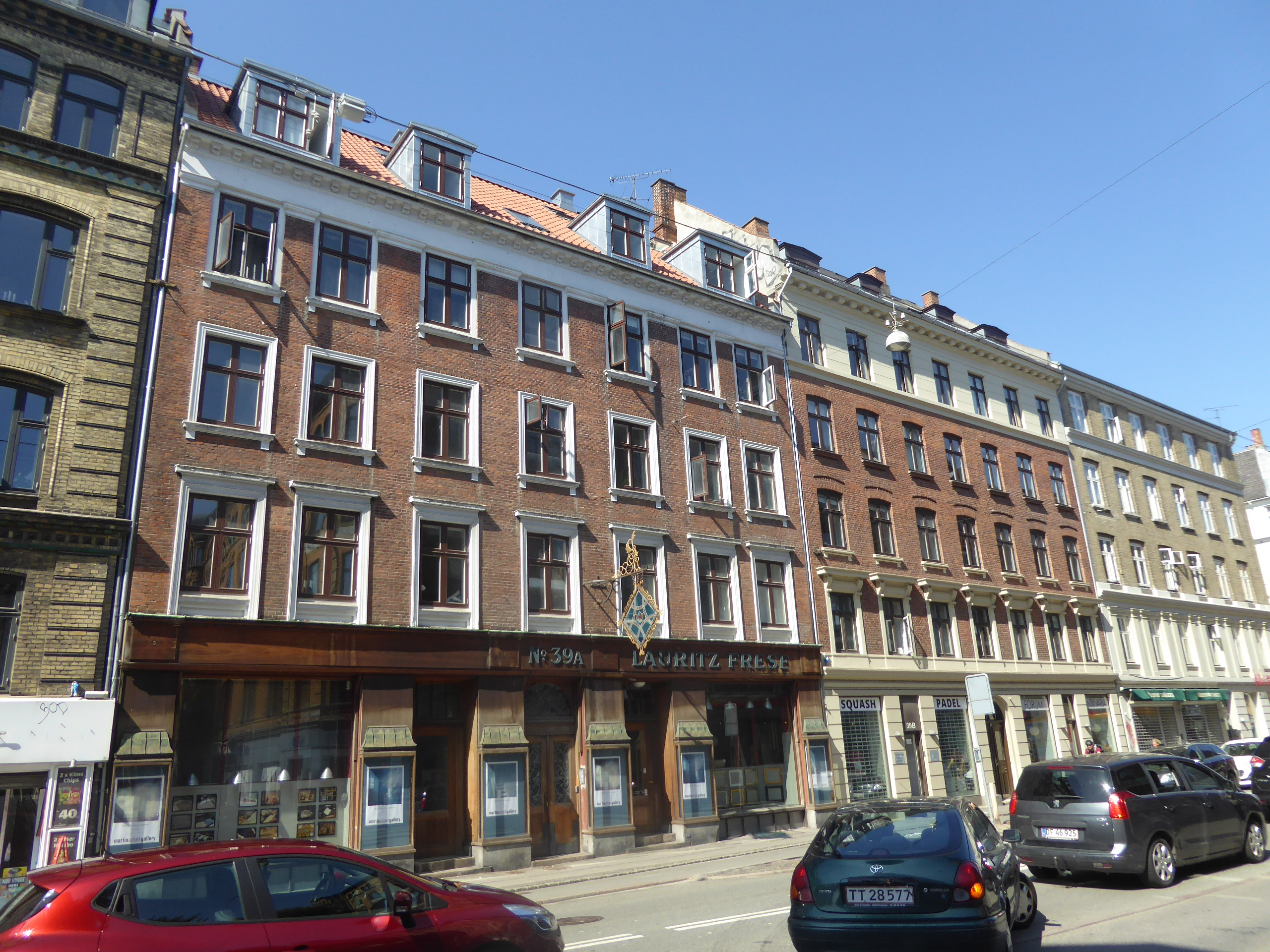 Apartment buildings at H.C. Ørsteds Vej in Frederiksberg in Copenhagen.